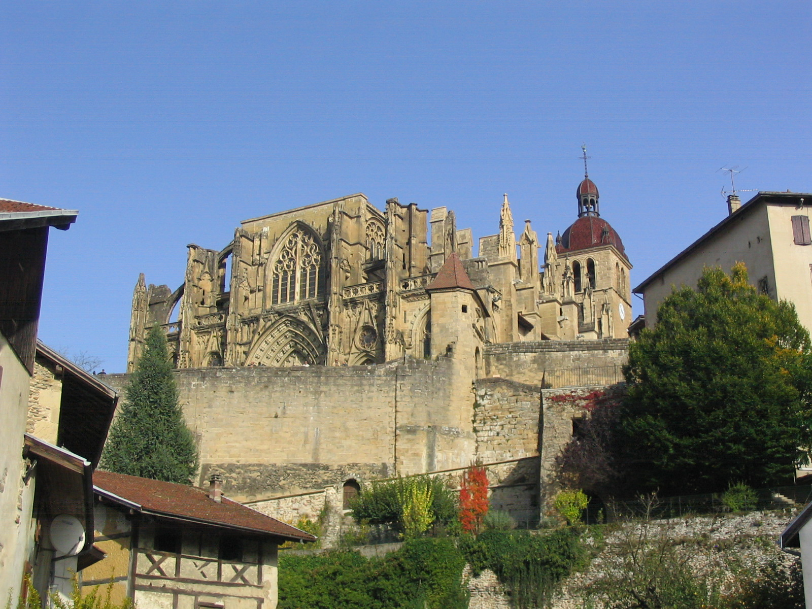 Church of Saint-Antoine-l'Abbaye